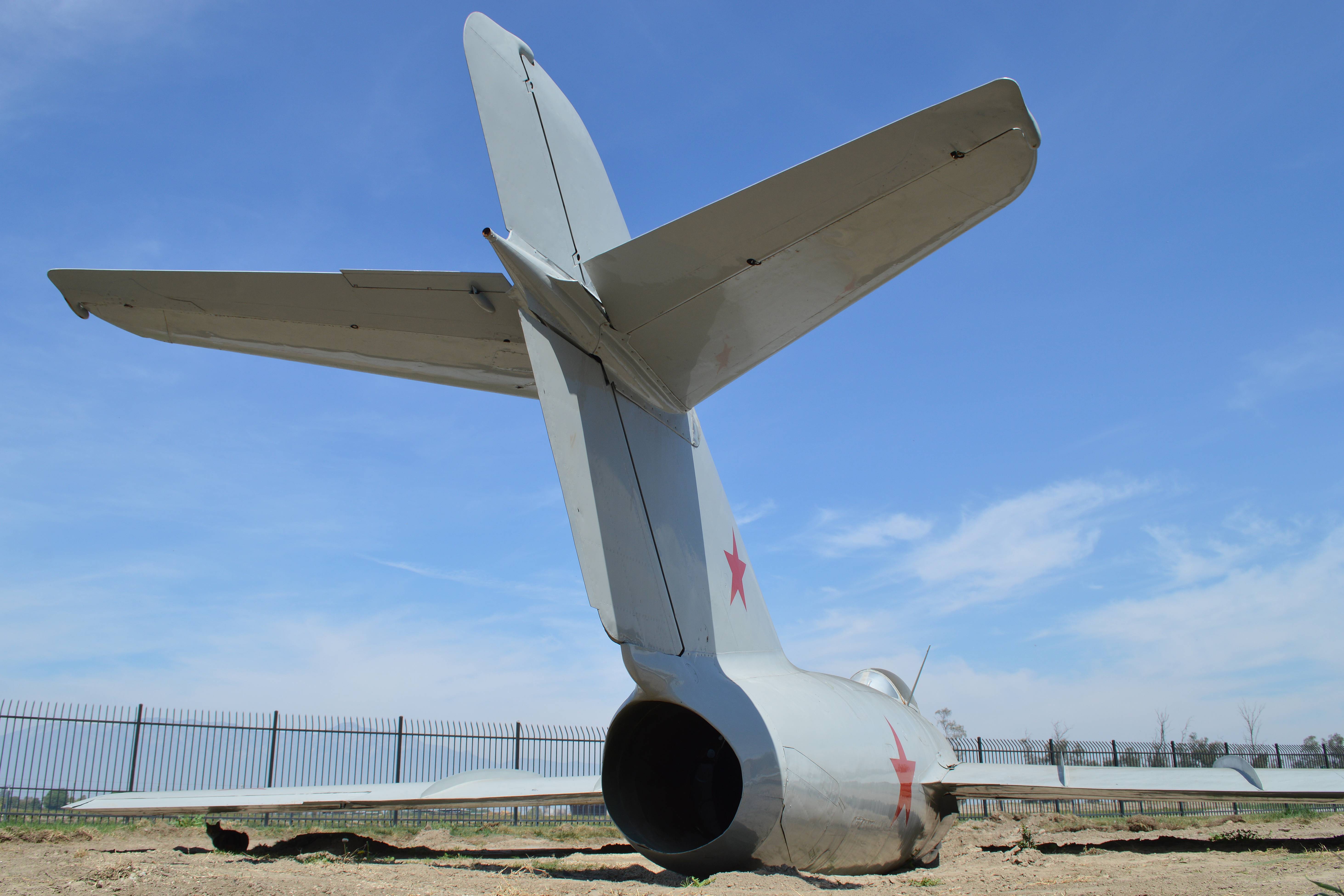 Believed to be c/n 1B-00612, a MiG-15 license built in Poland for the Polish Air Force as ‘612’. This will become part of a Korean War memorial, but currently it makes a good sun shade for the local cat! Planes of Fame Museum, Chino, California, USA. 28-2-2016